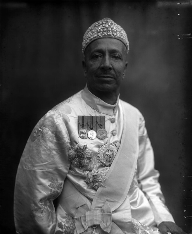 Sir Sayed Mohammad Hamid Ali Khan Bahadur, Nawab of Rampur by Vandyk 12 x 10 inch glass transparency, 4 April 1927